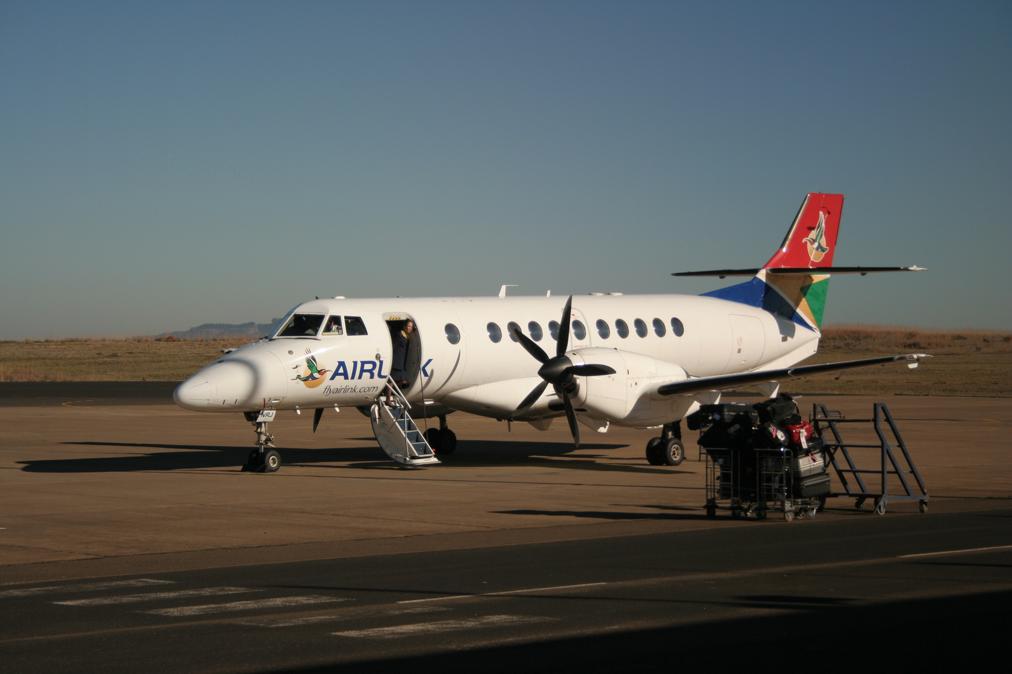 South African Airlink Jetstream 41 (ZS-NRJ) at Moshoeshoe I International Airport